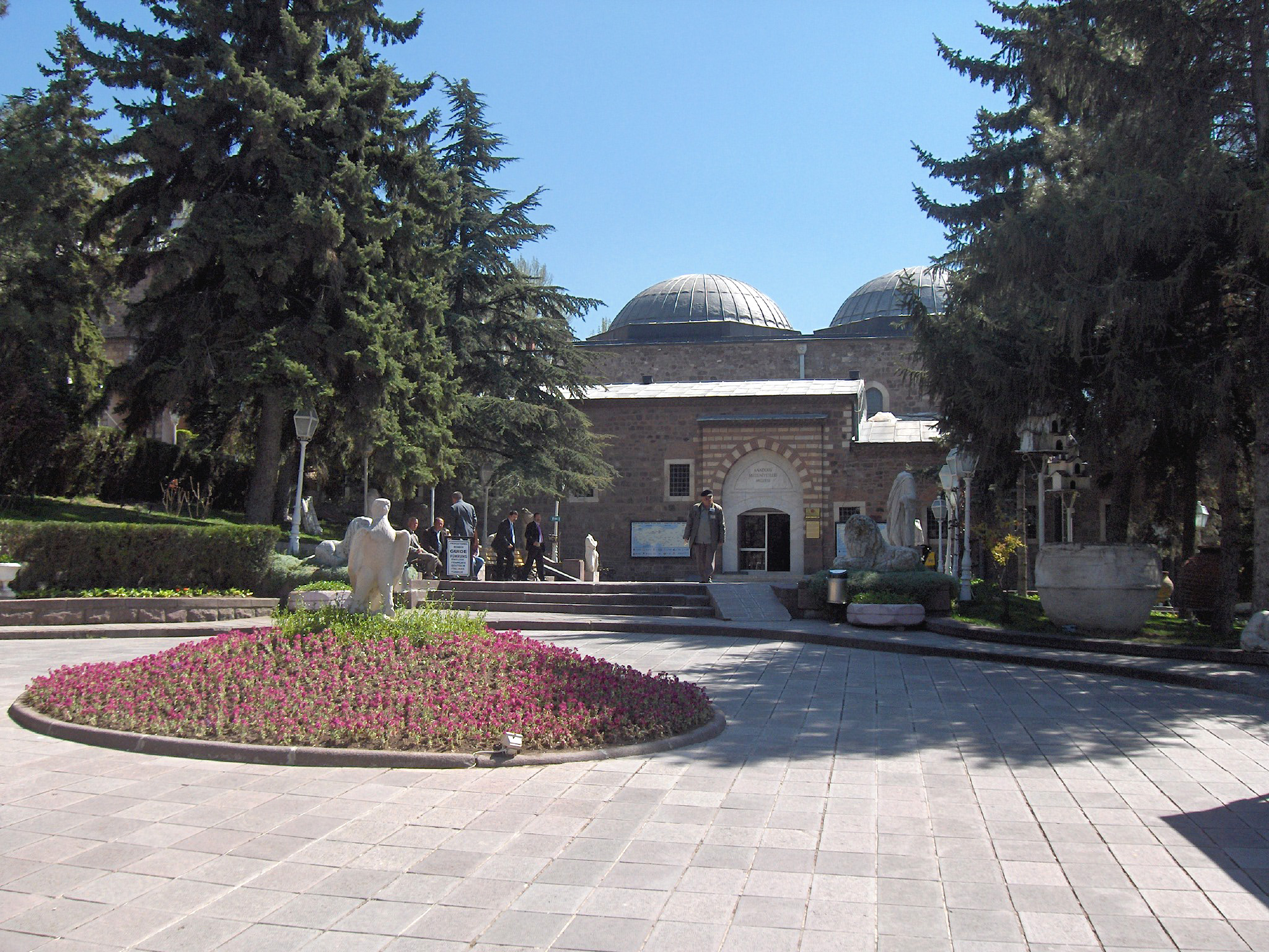 Entrance to the Museum of Anatolian Civilizations, Ankara, Turkey